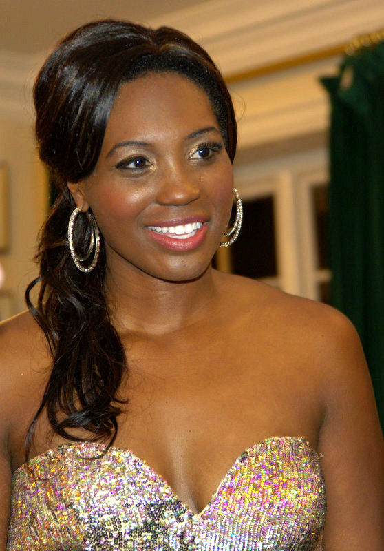 This photo was taken just before I met Angel Blue at her concert in London.